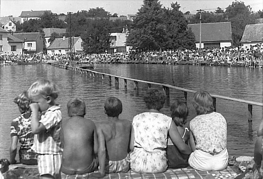 Rudka, races over the pond